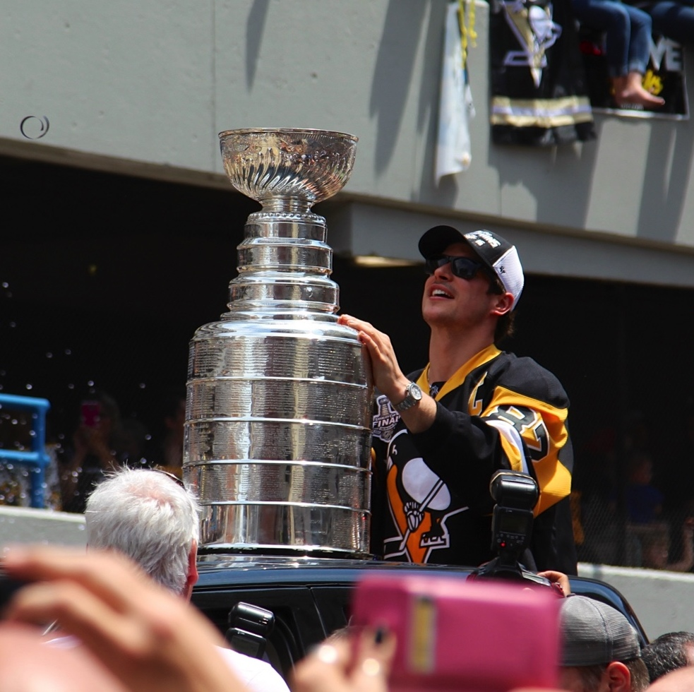 Penguins Victory Parade @ Pittsburgh, Pennsylvania